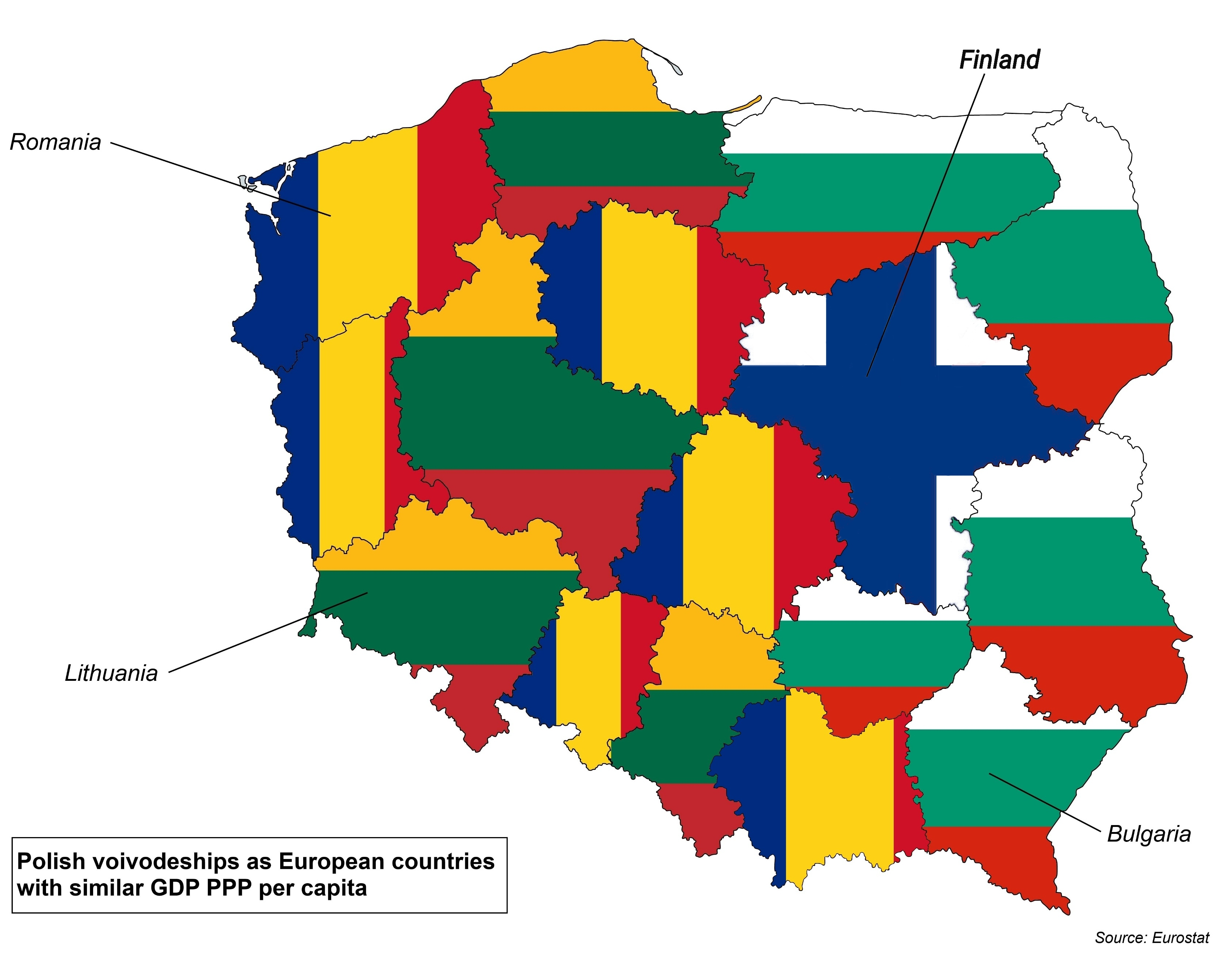 Polish voivodeships(regions) as European countries with similar GDP PPP per capita